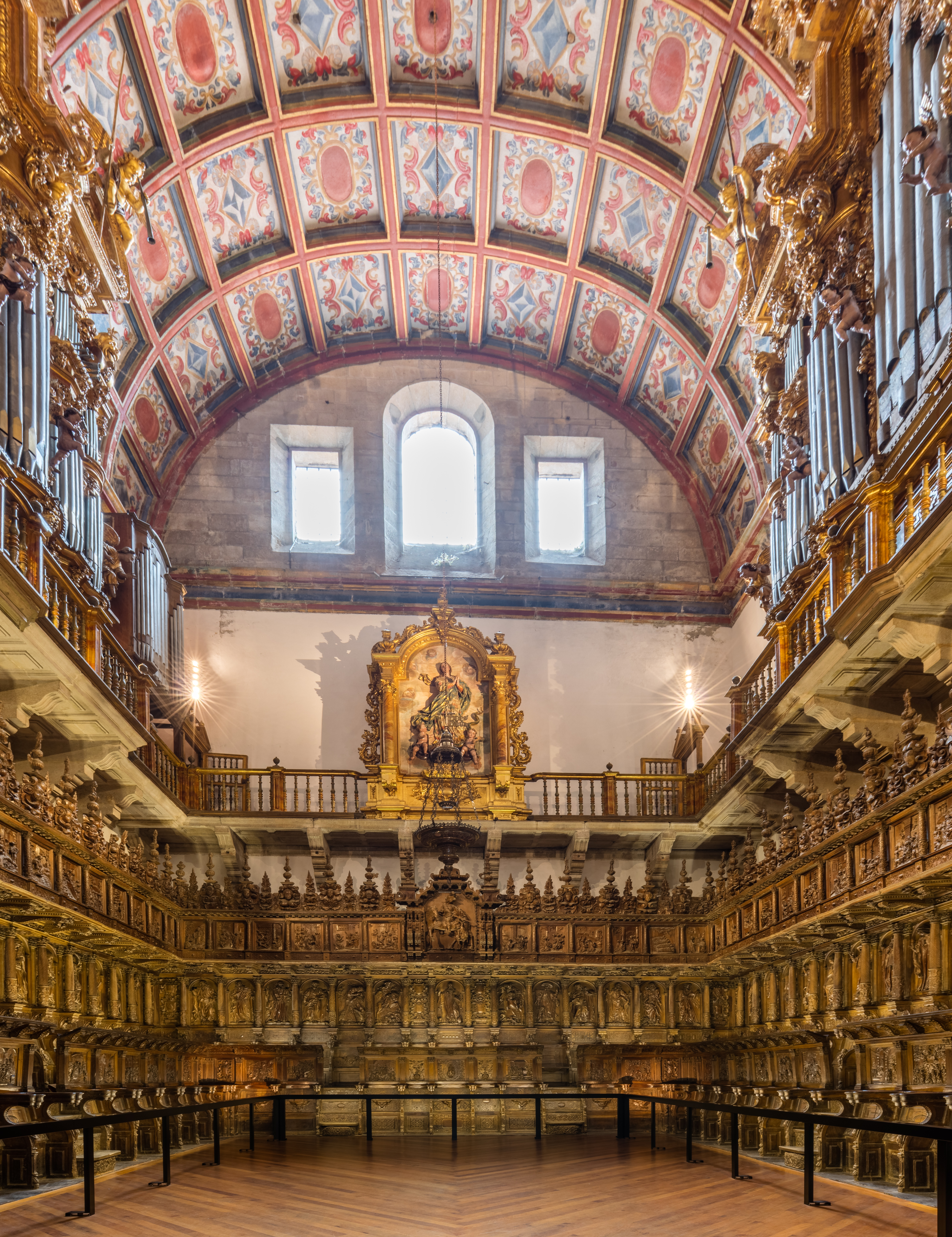 San Martin Monastery, Santiago de Compostela, Spain